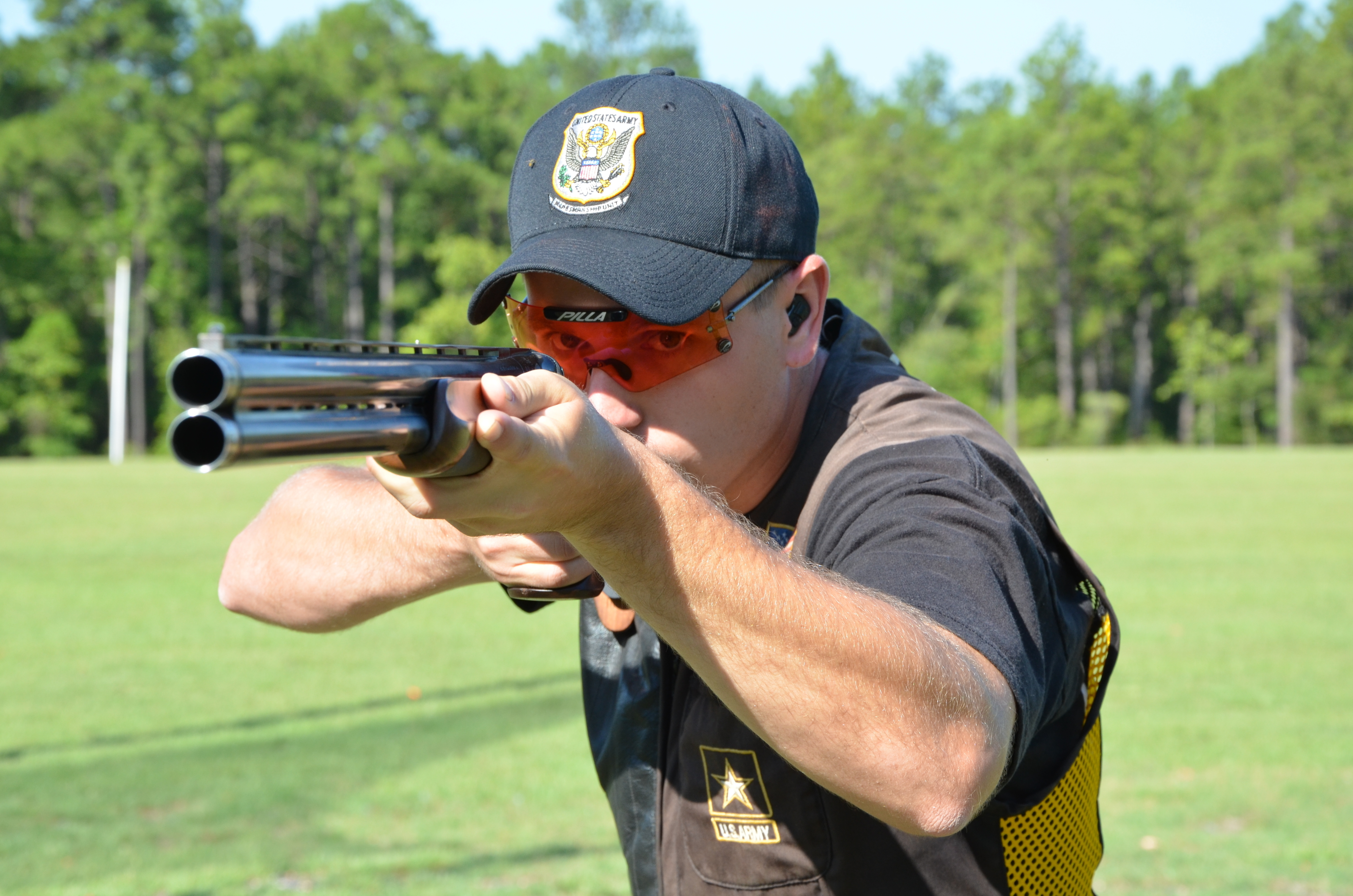 USAMU soldier, Sgt. Vincent Hancock is a two-time Olympic Gold medalist in Skeet shooting. US Army Marksmanship Unit Photo by Sgt. 1st Class Kevin Heermann Date Taken:07.09.2012 Location:EATONTON, GA, US Read more